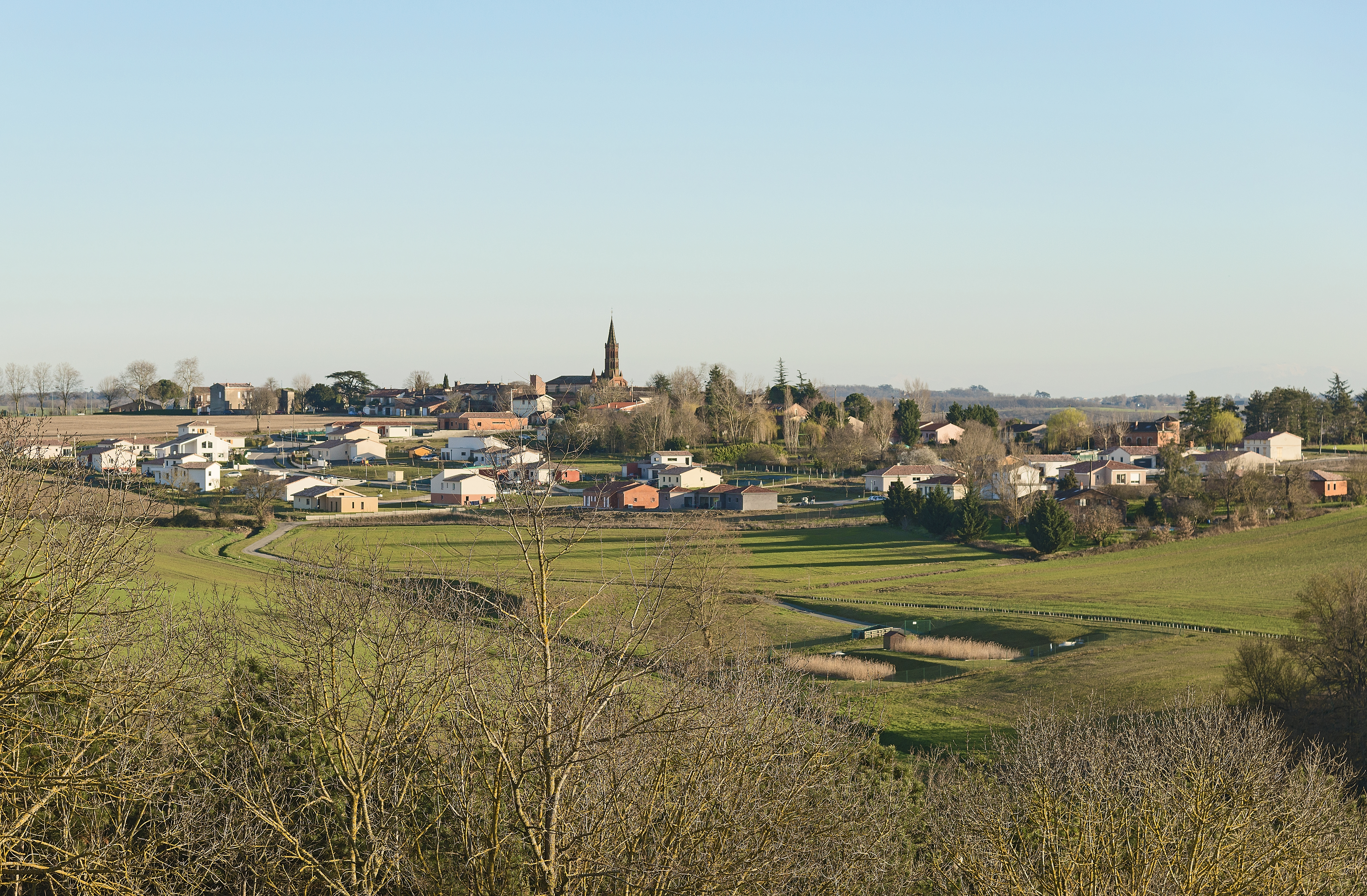 Lavalette, Haute-Garonne. Panorama.